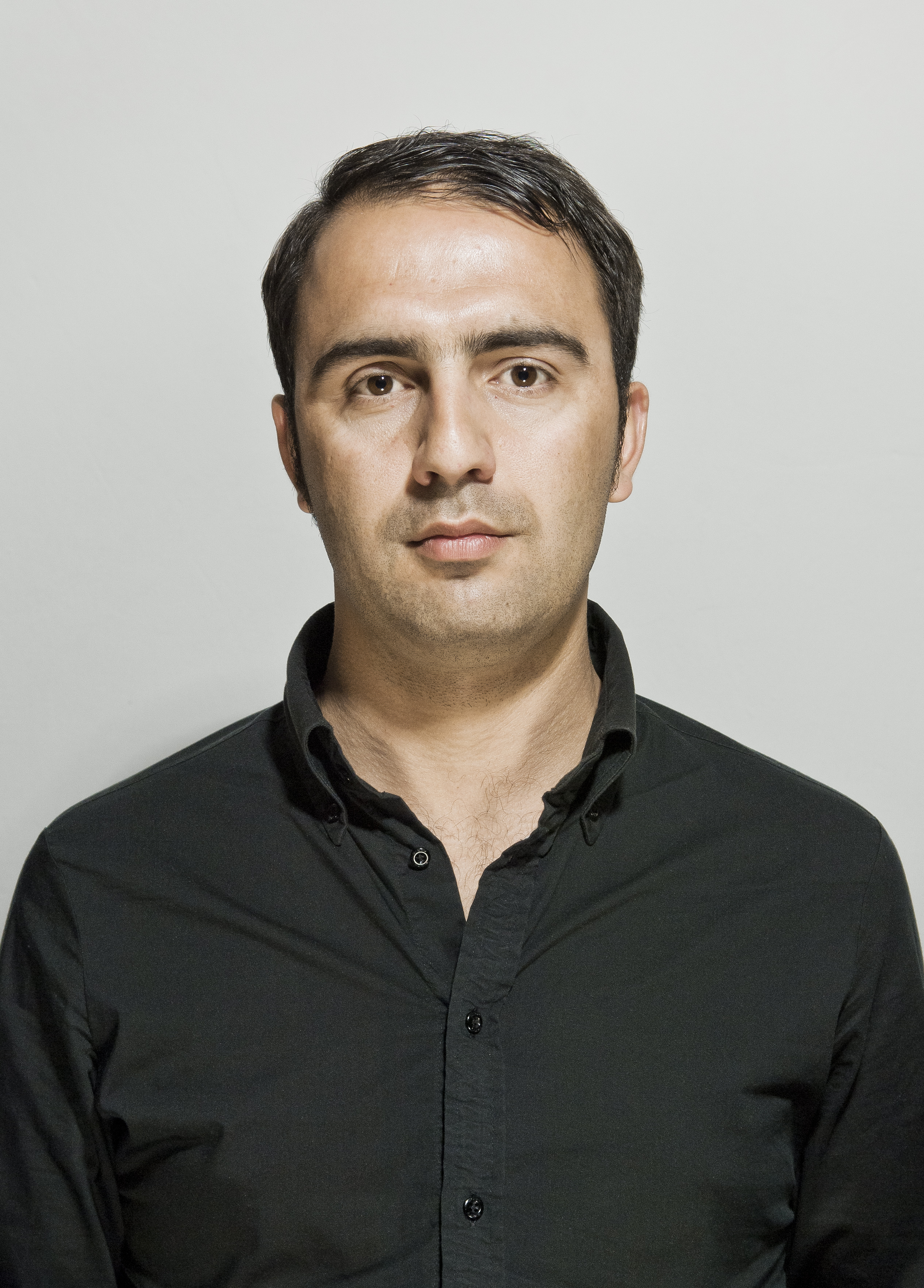 Portrait of Arben Zharku taken in 2011